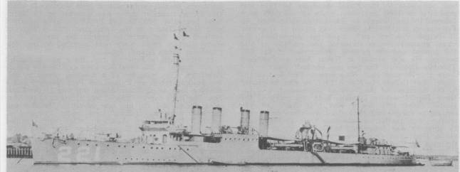 The U.S. Navy destroyer USS Simpson (DD-221).